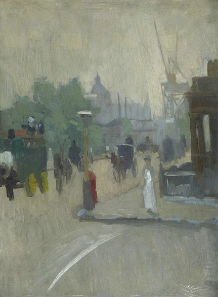 Oil painting, Cromwell Road: the New Building of the Victoria and Albert Museum under Construction, ca. 1906 Victoria and Albert Museum, London, museum no. P.23-1958 (Link)